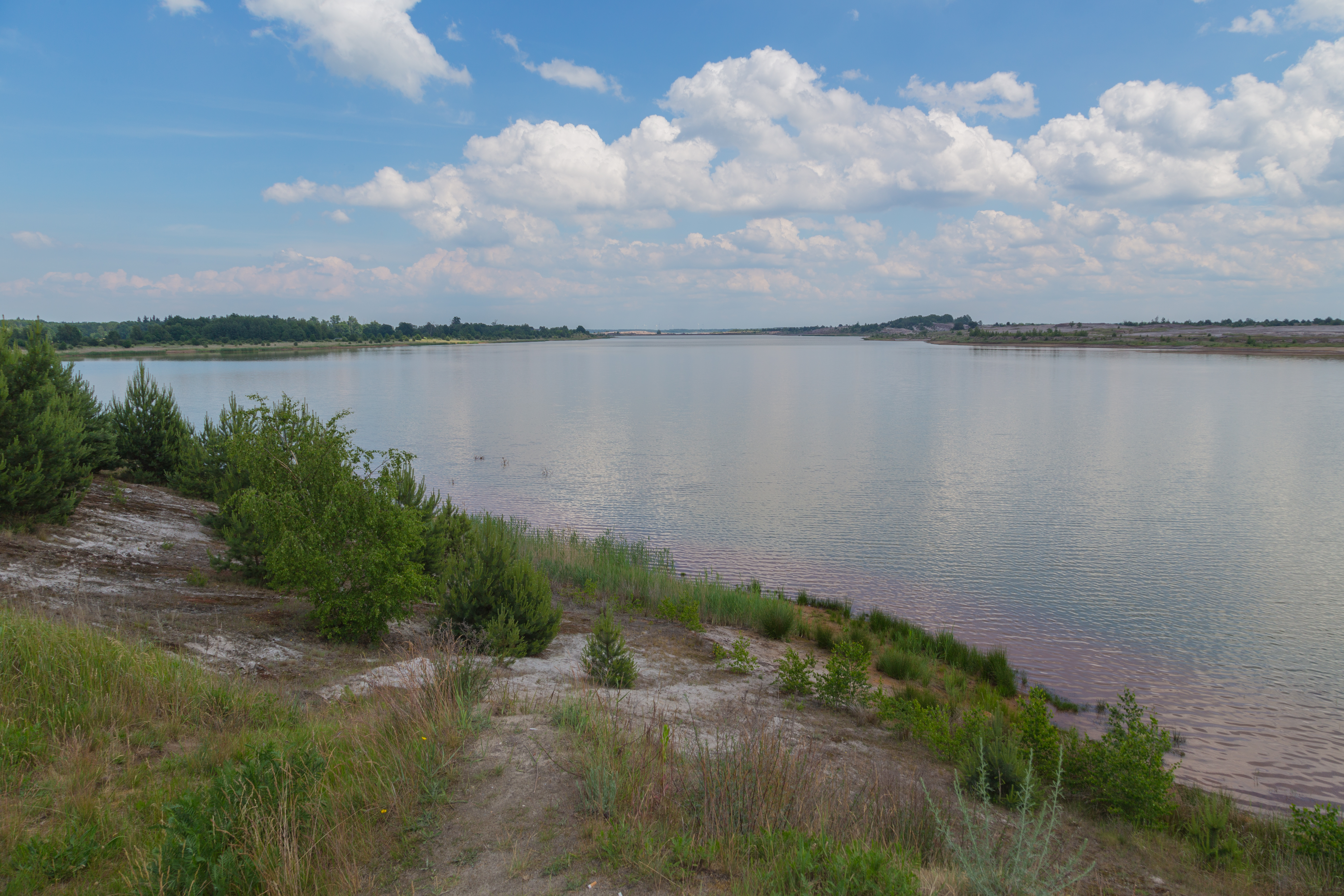 Lake Schlabendorf (Schlabendorfer See) near Görlsdorf, district of Luckau, Landkreis Dahme-Spreewald, Brandenburg, Germany. This part of the lake belongs to Sielmanns Naturlandschaft Wanninchen and also to Wanninchen Nature Reserve (Naturschutzgebiet Wanninchen).